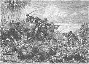 Benedict Arnold at Saratoga (Bemis Heights), Oct. 7, 1777 Source: A Brief History of the United States, Barnes's Historical Series, American Book Company, New York, 1885. Caption: "ARNOLD AT SARATOGA."